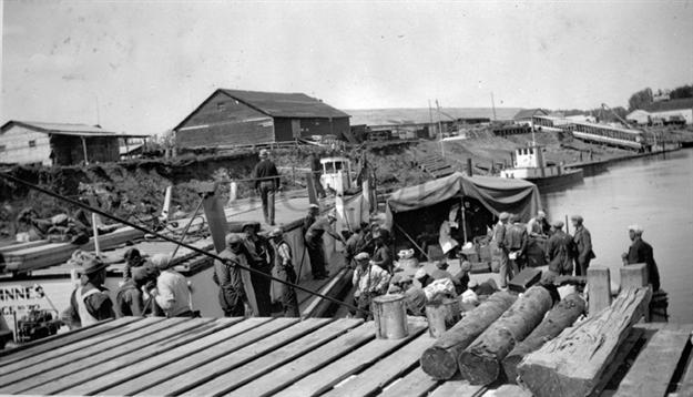 Tugs moored at Waterways, Alberta.